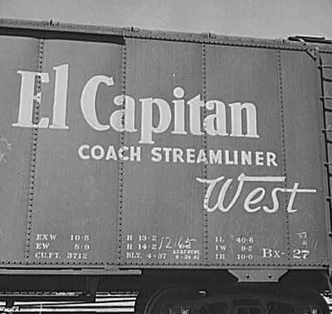 San Bernardino, California. A freight car of the Atchison, Topeka and Santa Fe Railroad